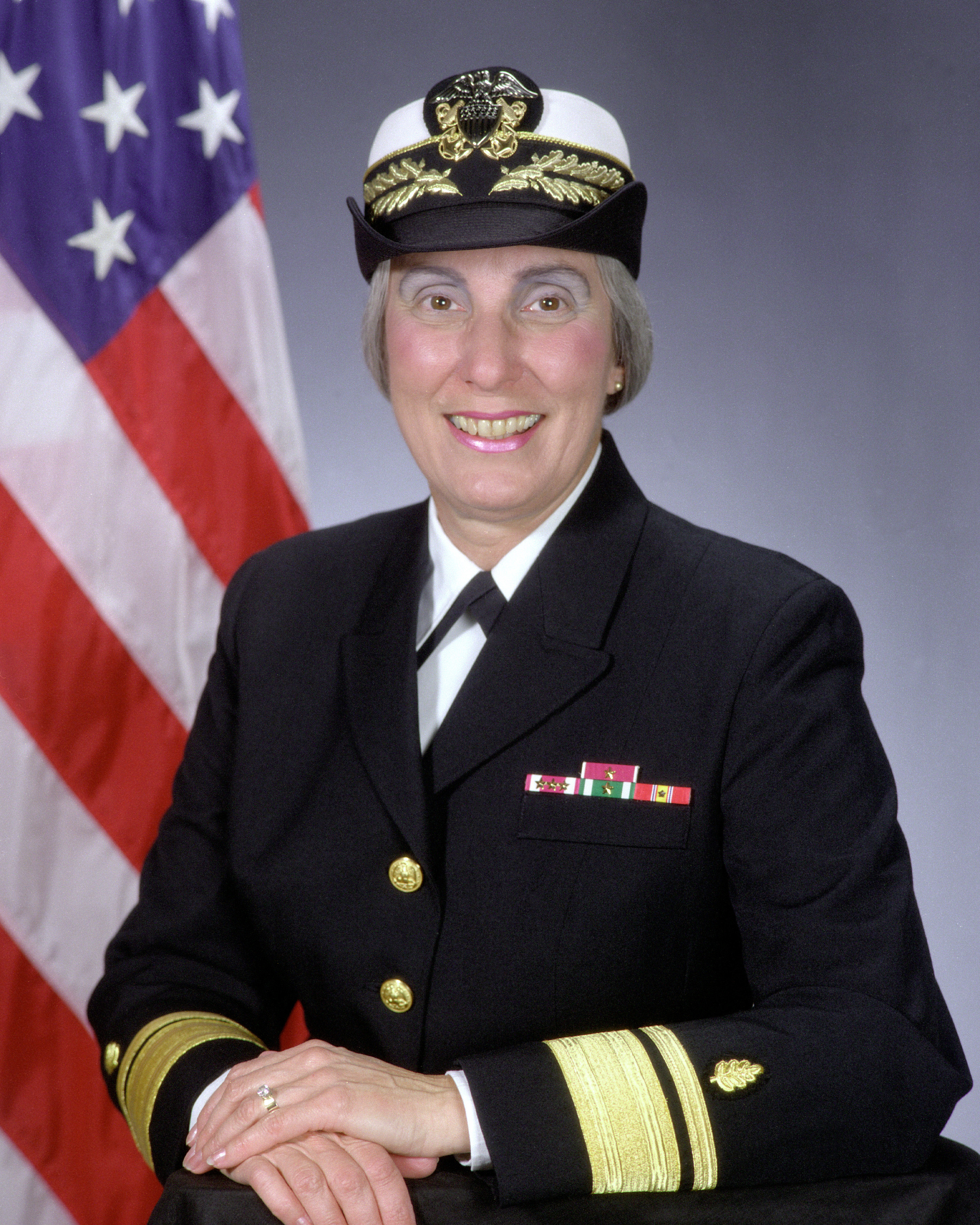 Rear Adm. (upper half) Joan M. Engel